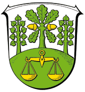 Coat of Arms of Hüttenberg